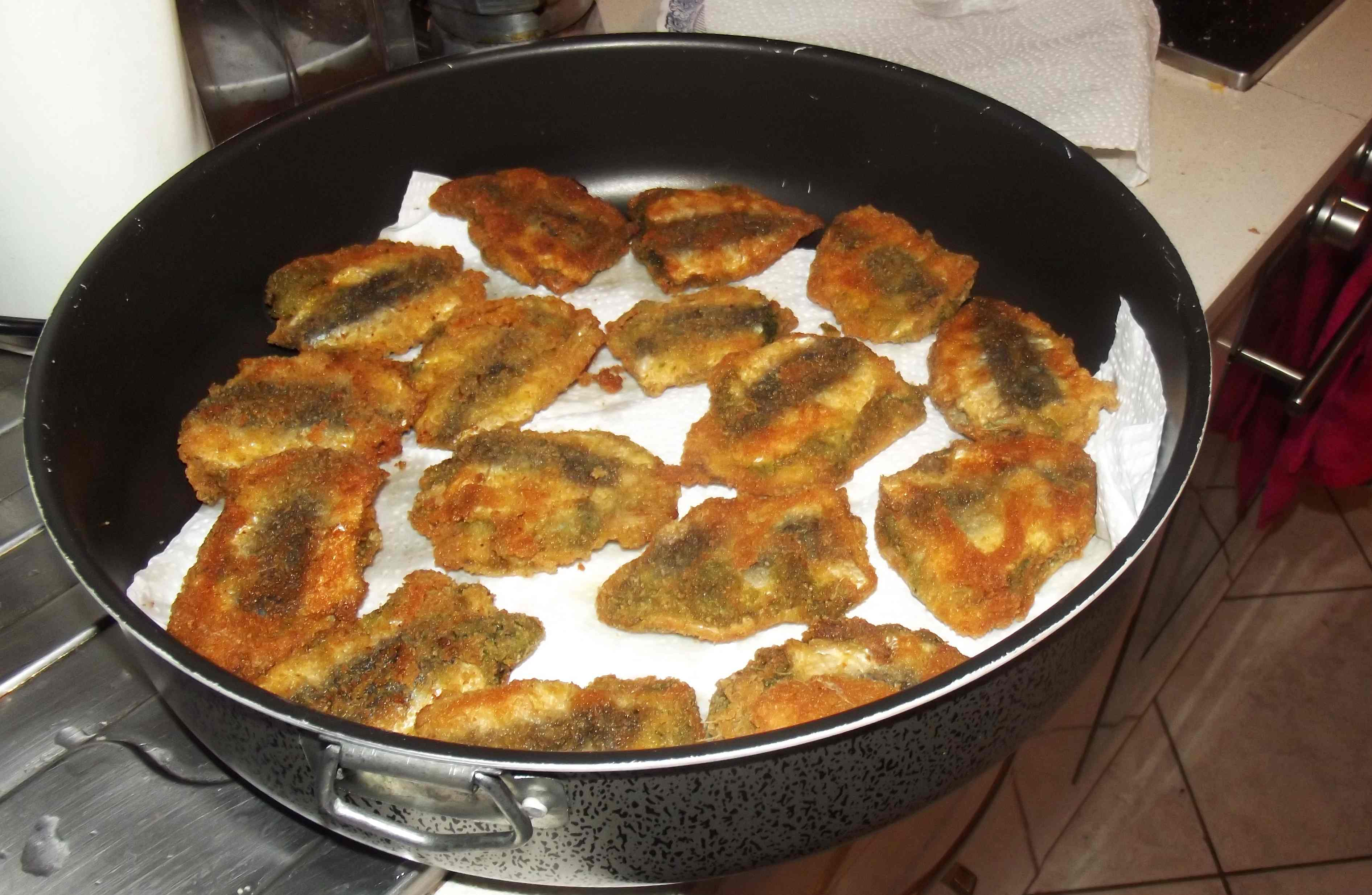 A stuffed sardine baking tray